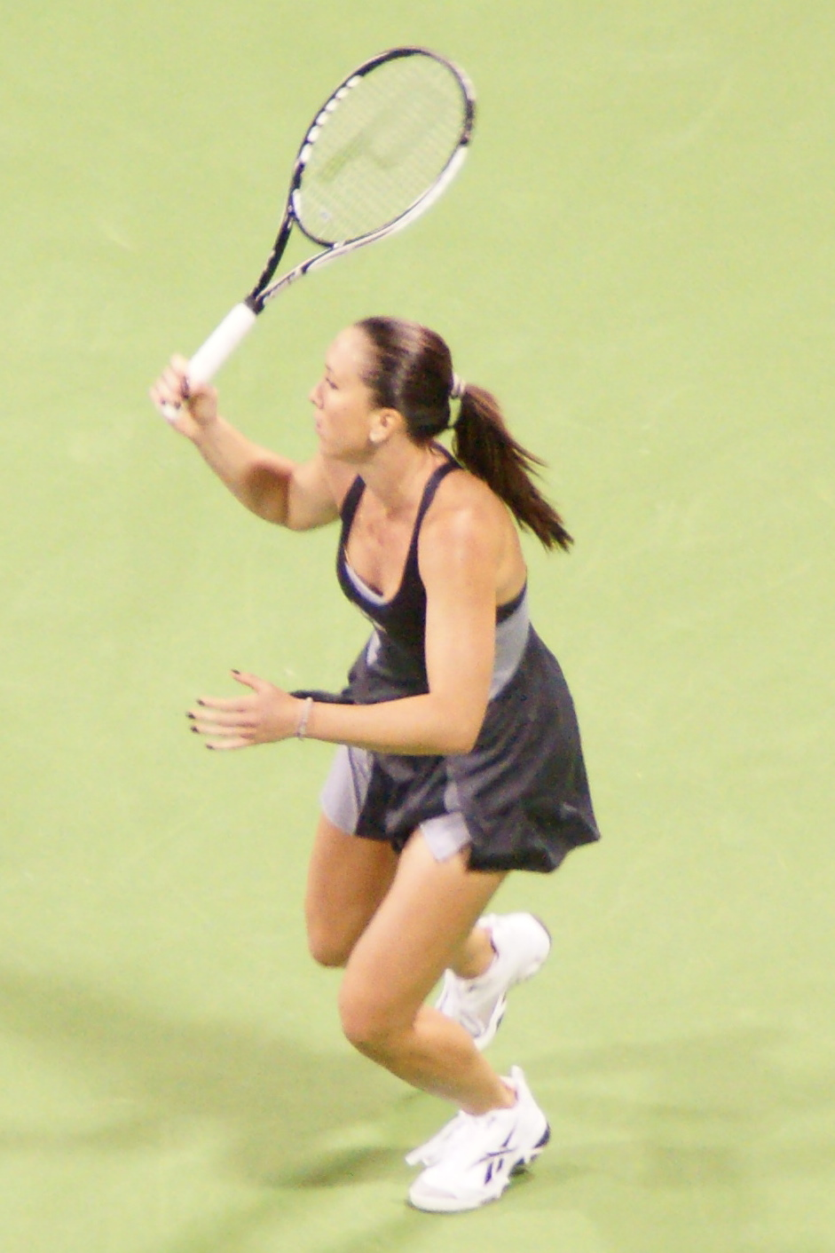 Jelena Jankovic at the 2008 WTA Tour Championships